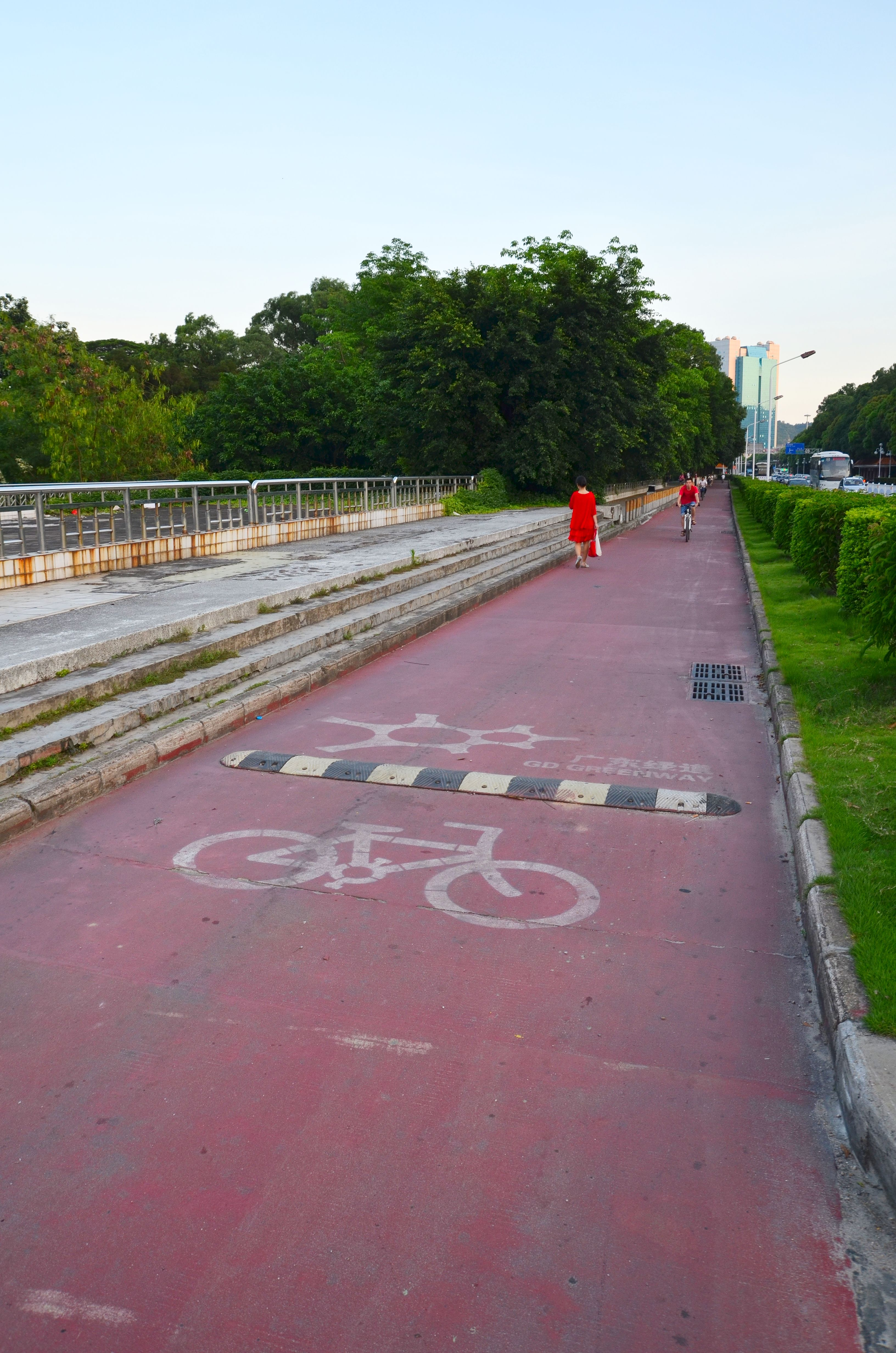 Guangdong Greenway (广东绿道) in Zhuhai, province du Guangdong, People Republic of China.